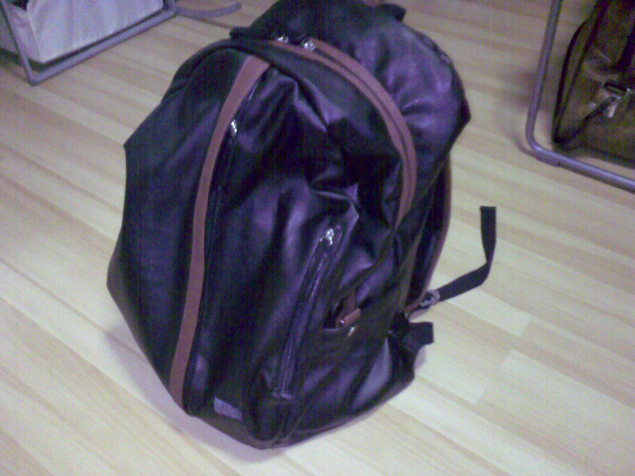 A leathery bag purchased from City Square Johor Bahru, Malaysia